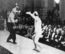 Aldo and Nedo Nadi Cannes